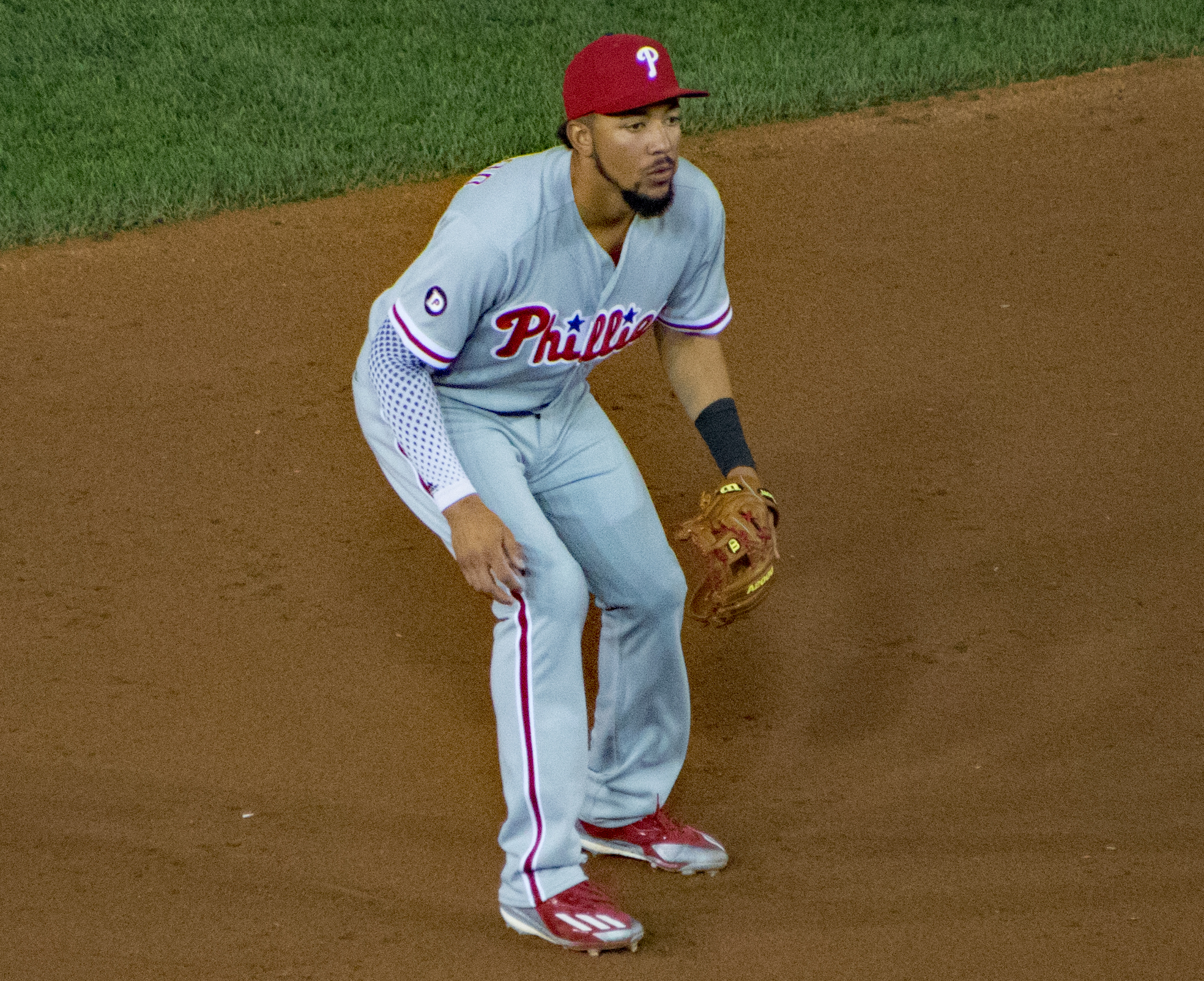 JP Crawford with the Philadelphia Phillies at Nationals Park in Washington, DC in 2017